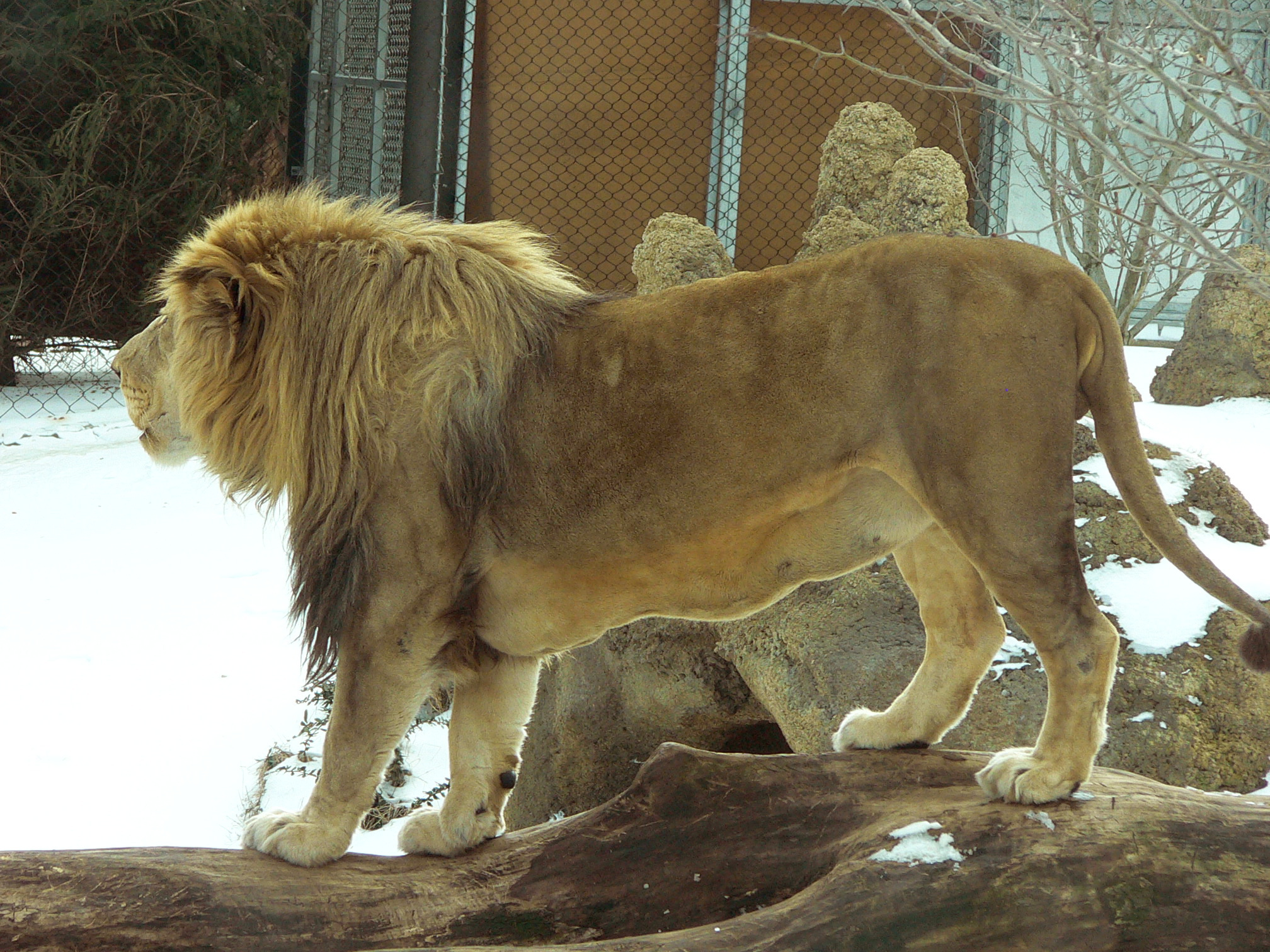 Lion at Philadelphia Zoo.